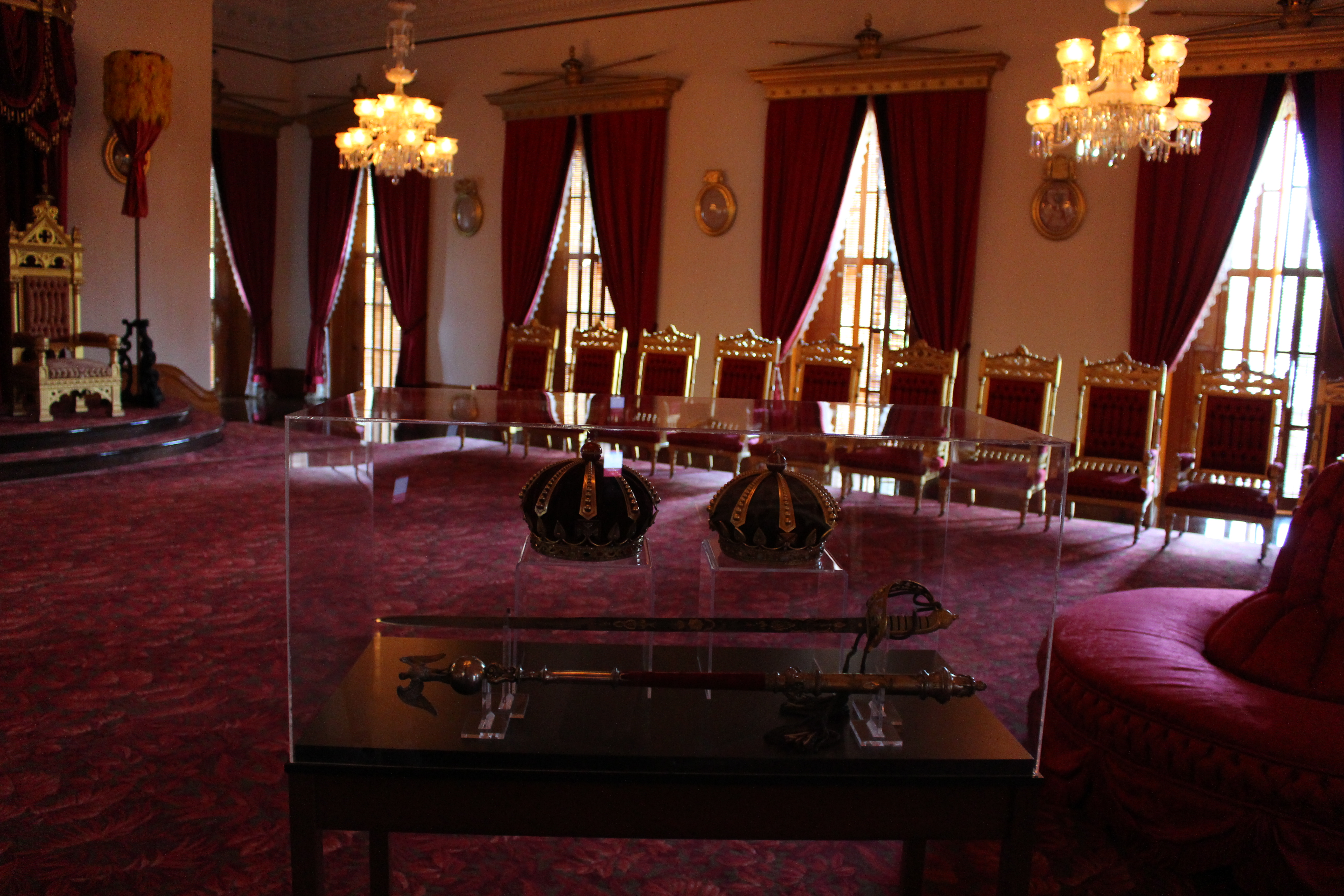 Hawaiian Regalia on display in throne room.